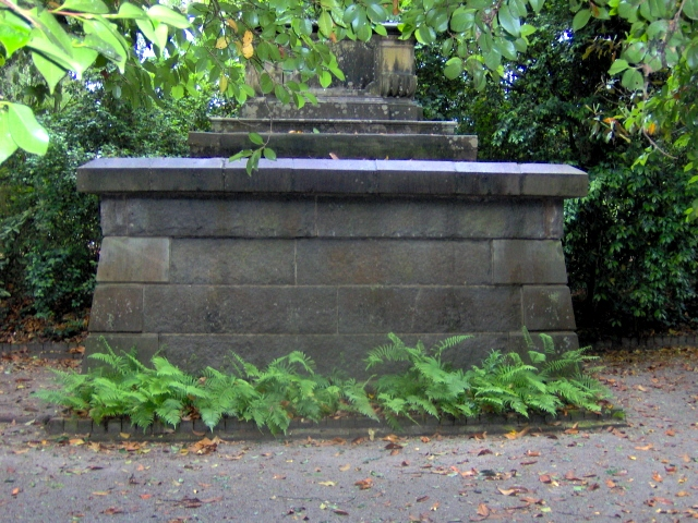 Tomb of Arthur Middleton (1742–1787) at Middleton Place near Charleston, South Carolina, USA. Middleton was a signer of the U.S. Declaration of Independence. Middleton's mother (Mary Williams), his son Henry Middleton, his grandson Williams Middleton, and great-granddaughter Elizabeth Middleton are buried in the same burial plot.